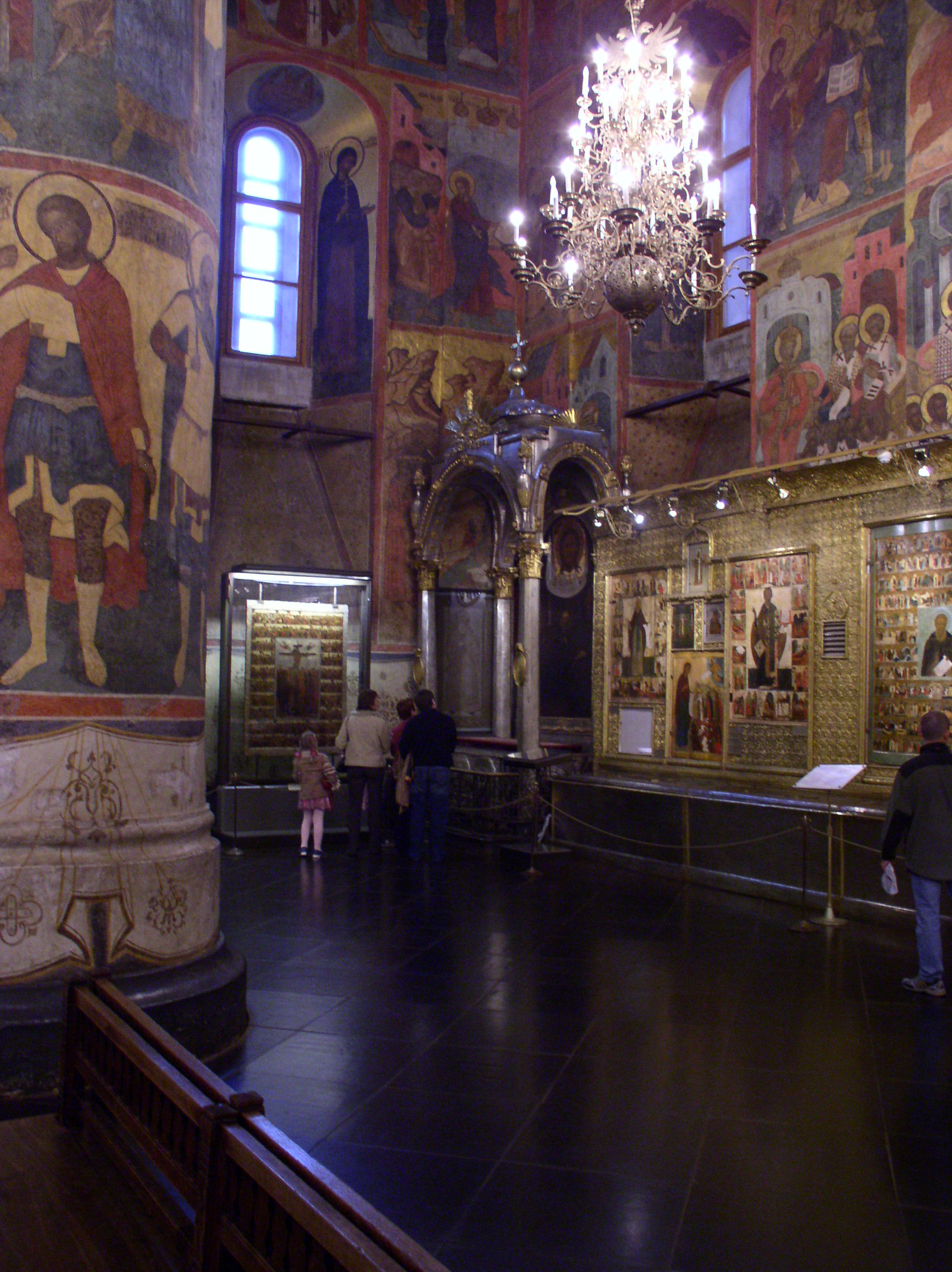 Moscow Kremlin museums exhibitions. Moscow, Russia.